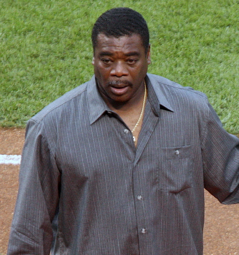 Eddie Murray, American baseball player, at a ceremony at Camden Yards